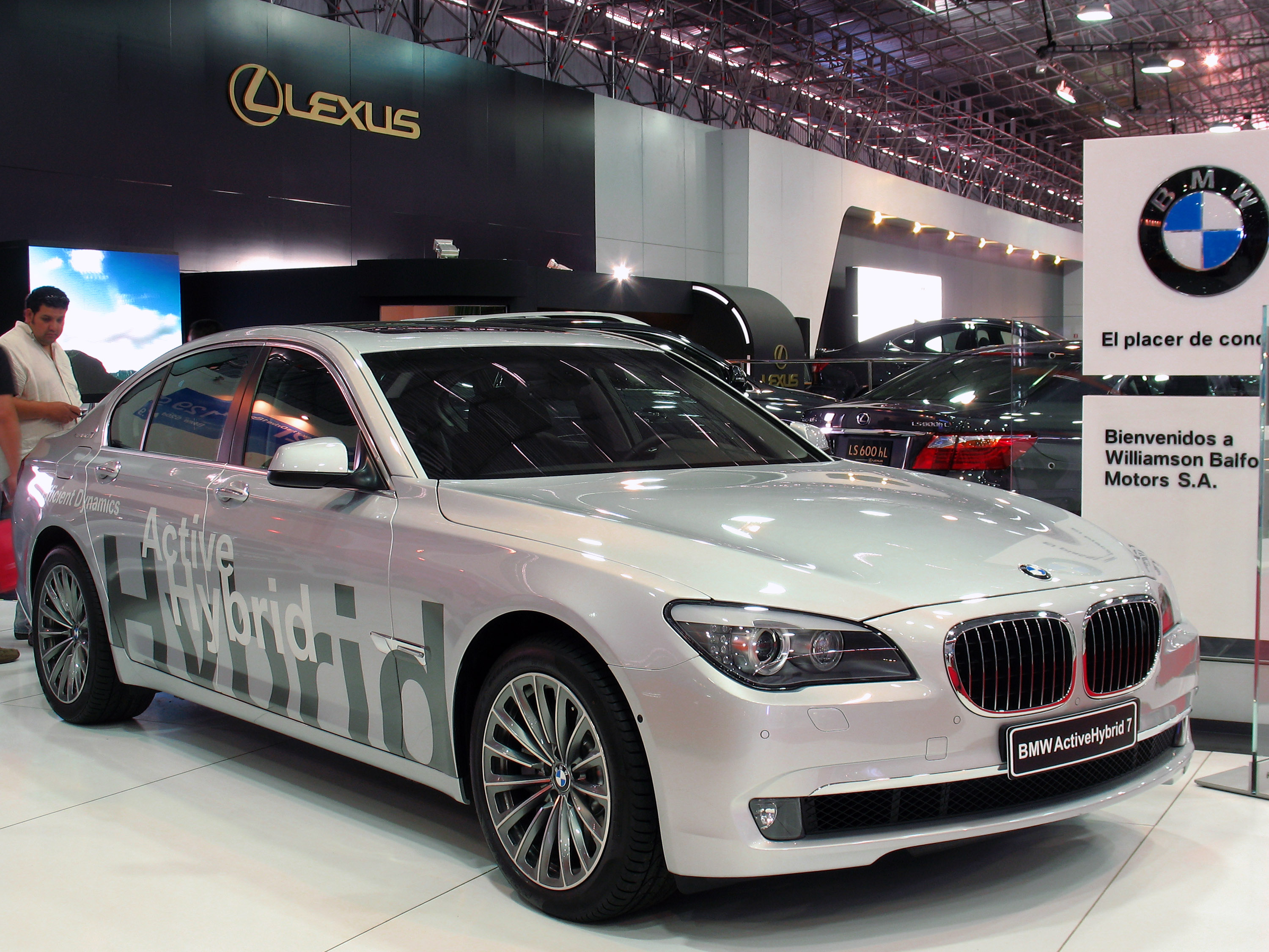 BMW ActiveHybrid 7 2010